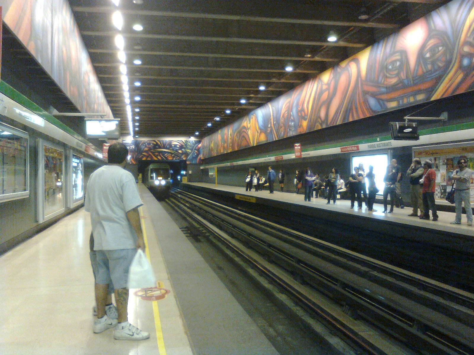 metro